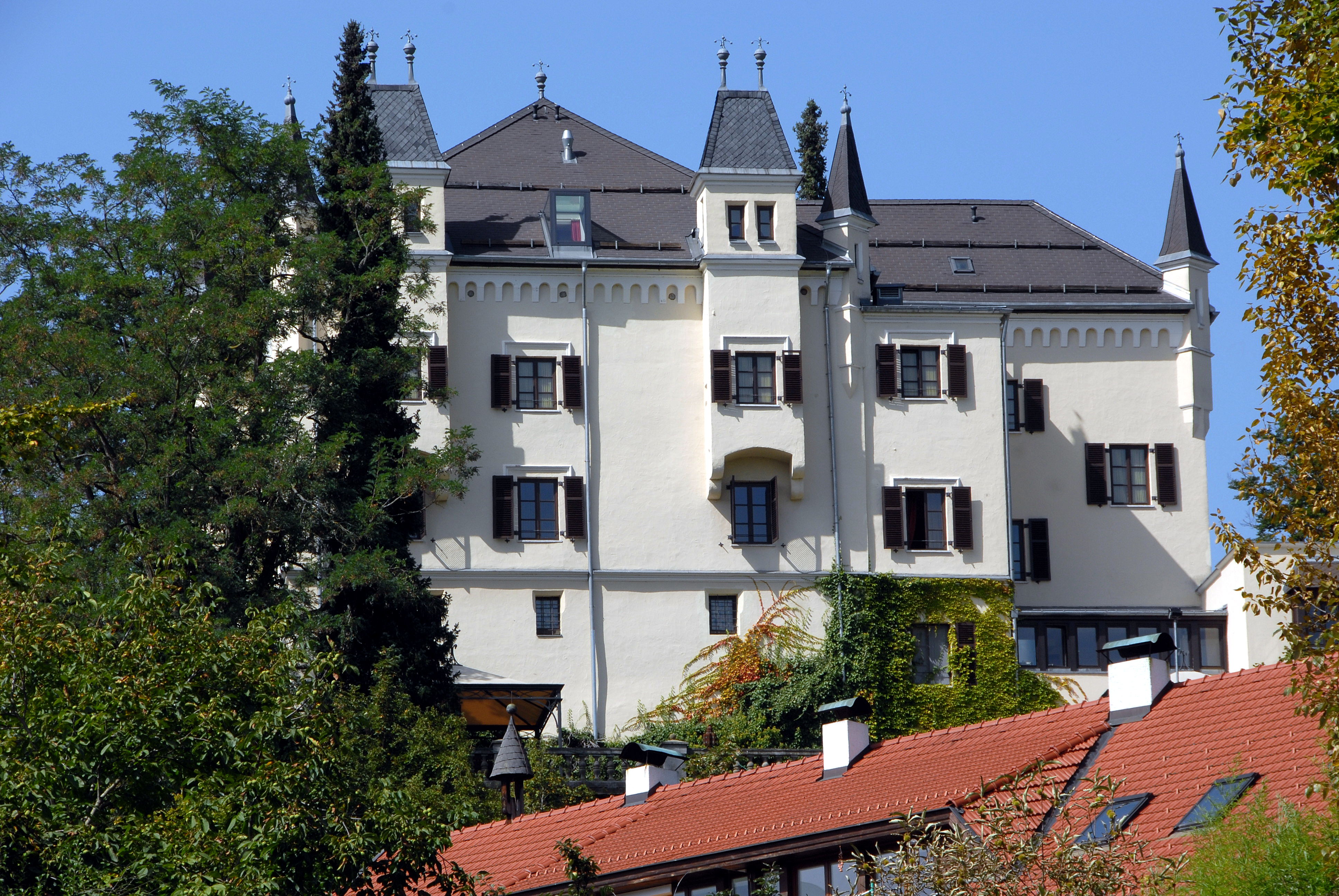 Castle “Freyenthurn”, 12th district “Sankt Martin”, north-west of the municipality Klagenfurt on the Lake Woerth, Carinthia / Austria / EU